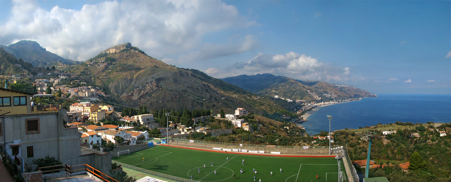 Taormina, Sicily, Italy. The Ionian Sea coast looking north from the old town. The cable car system leading to the beaches can be seen behind the football stadium.